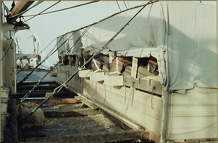 Marine transportation of horses in boxes on the deck of TS Nabob from the North German Lloyd, Bremen - 1959